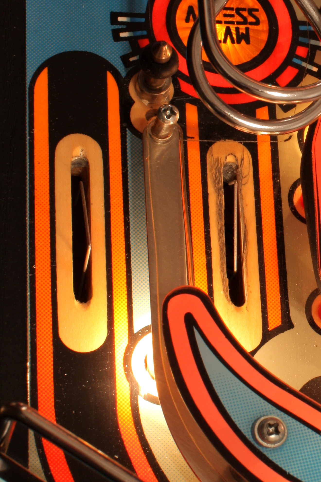 Left Roll Over Targets of the Williams pinball game "Demolition Man".